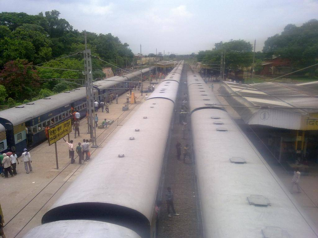 Mound of ruins with remains of temples and other buildings